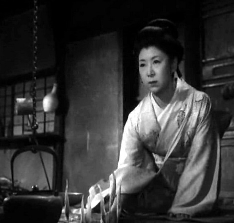 Screenshot from The Life of Oharu, 1952 film. Kinuyo Tanaka as Oharu.